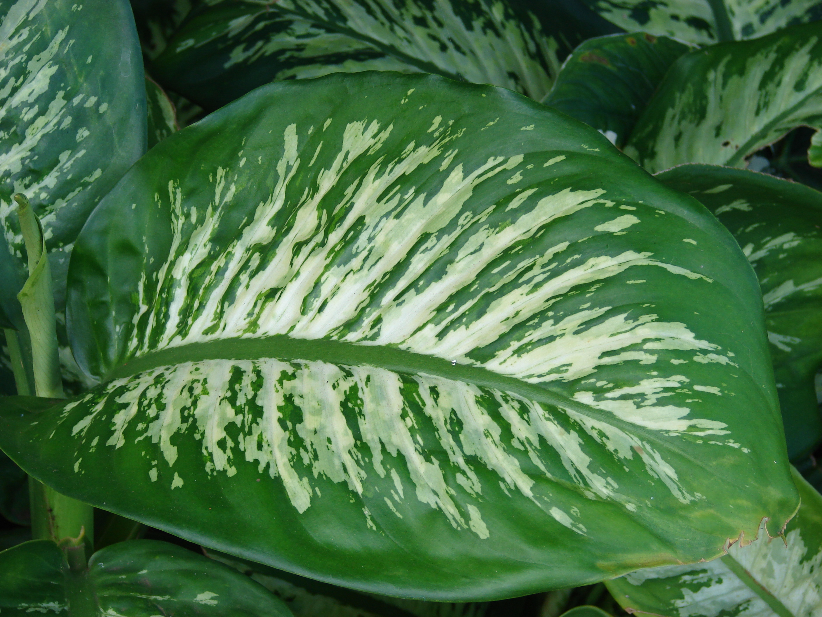 Dieffenbachia seguine (leaves). Location: Maui, Haiku